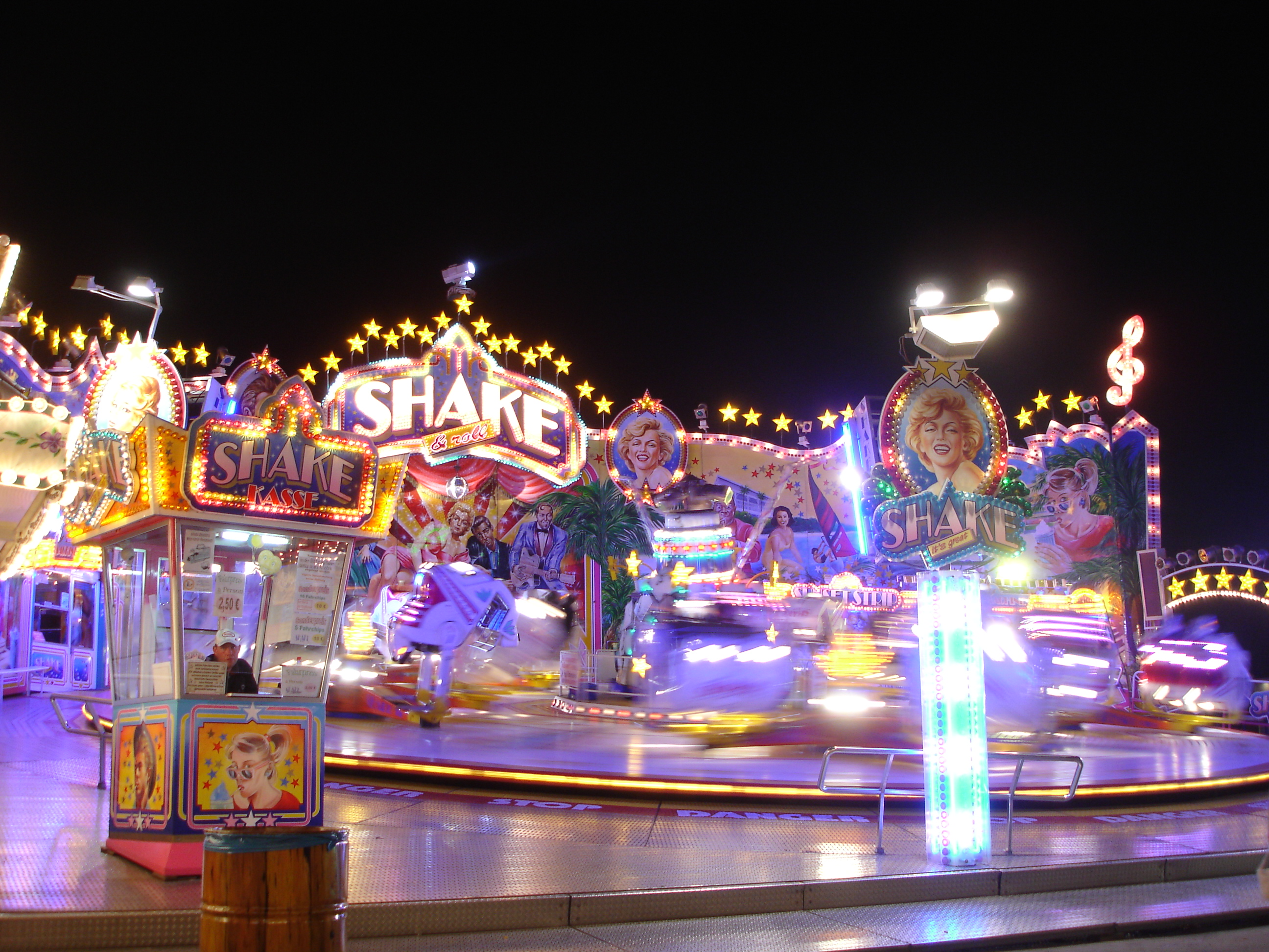 Carousel "Shake" during the Öcher Bend festival at Aachen, Germany.